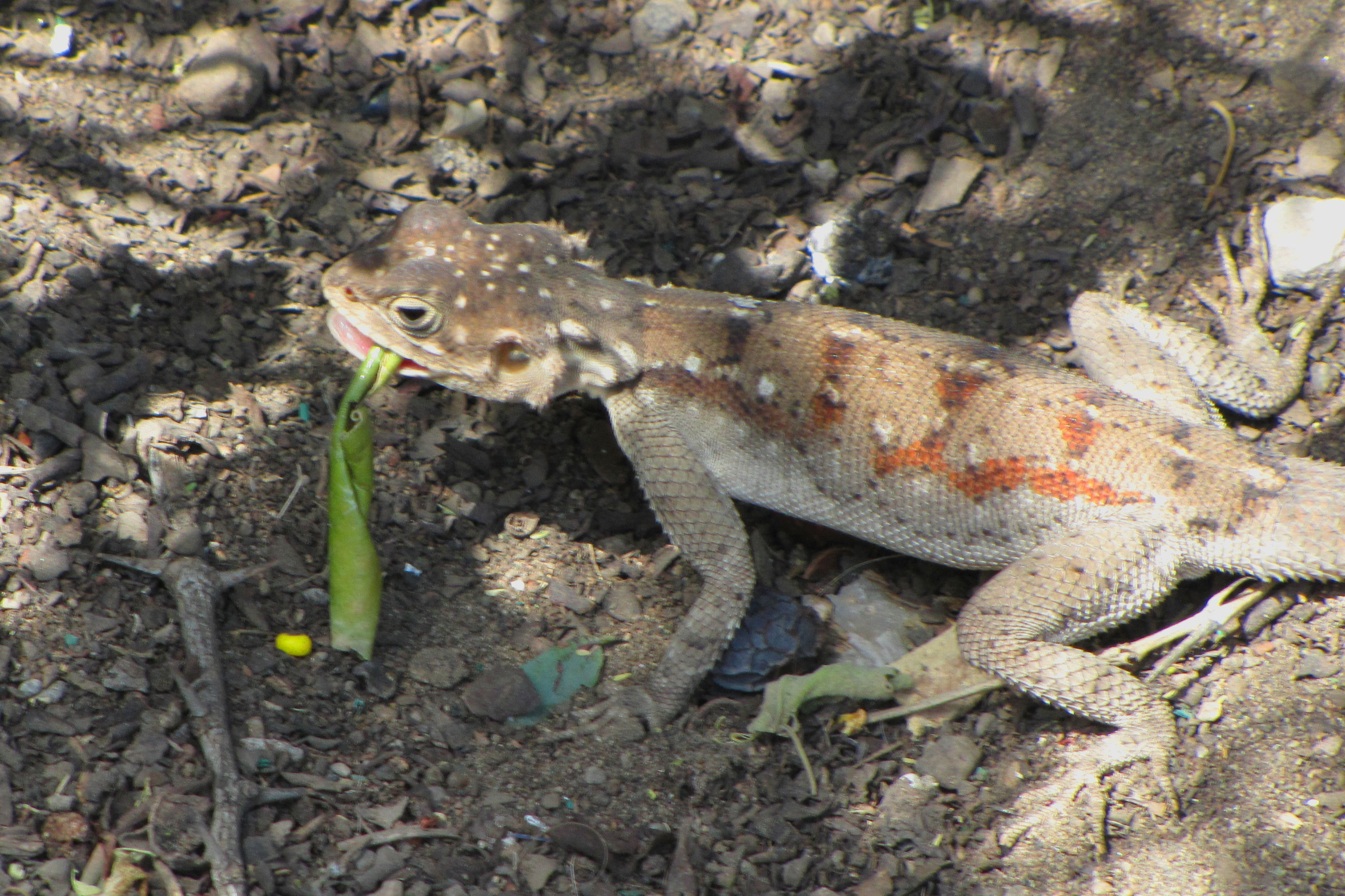 Ground Agama (Agama aculeata), female, Lake Manyara Park, Tanzania